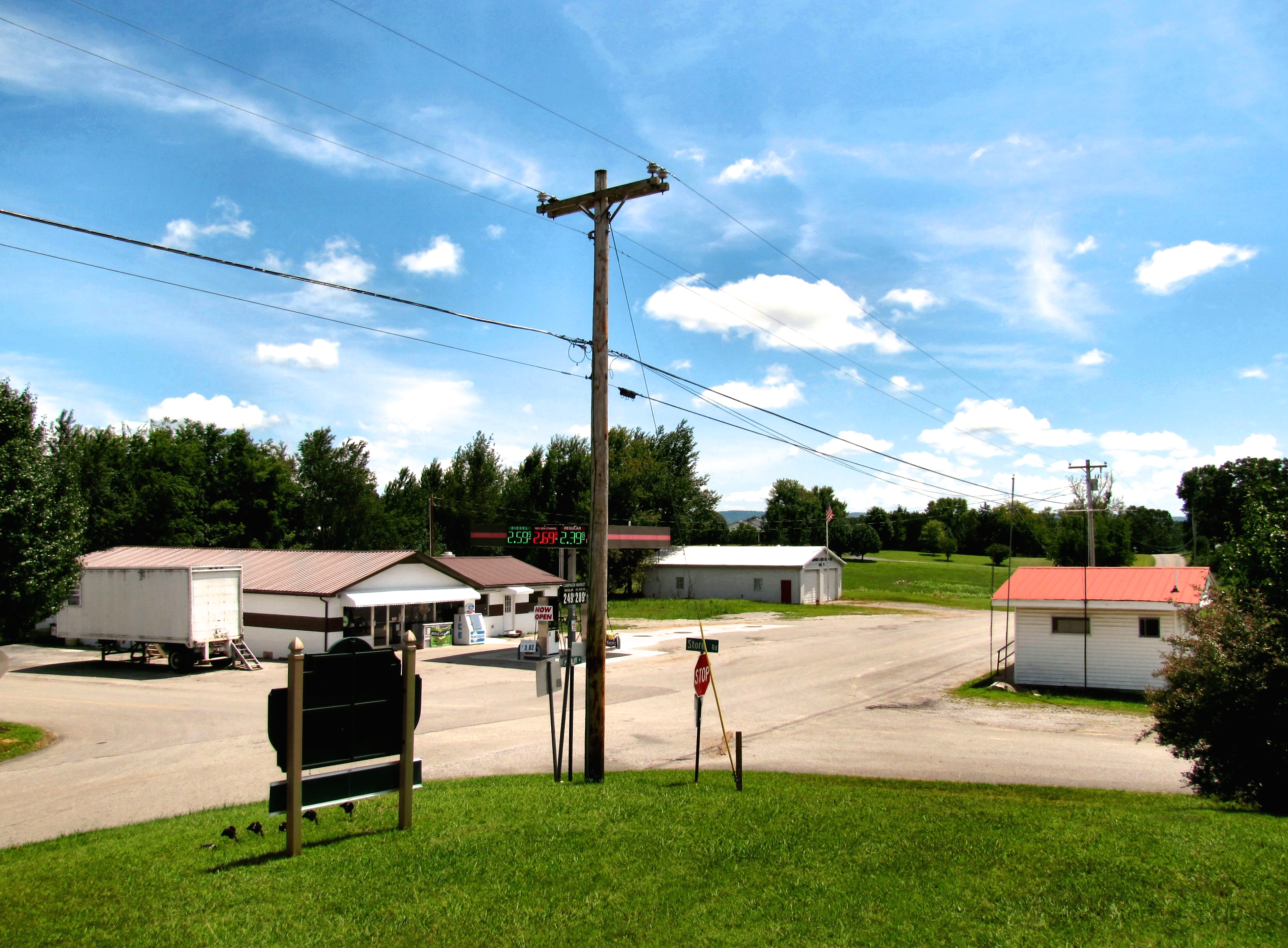 Intersection of Pine Bluff Road, Maple Drive, and Store Road, in the Campaign community of Warren County, Tennessee, United States. The Campaign Post Office is on the right.